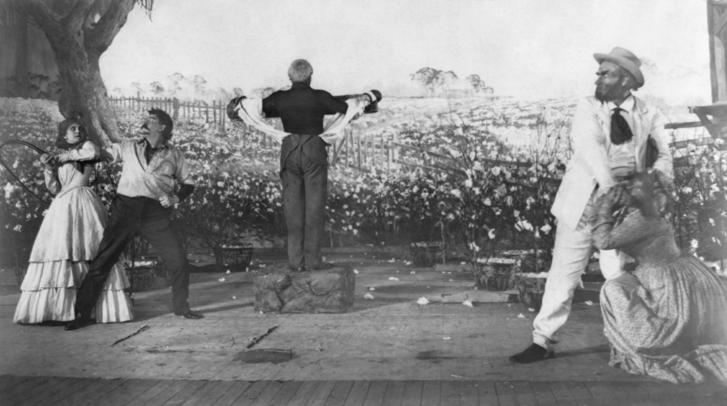 "Uncle Tom at the whipping post", scene from Uncle Tom's Cabin, 1901 stage production. Wilton Lackaye (center) as Uncle Tom, and Theodore Roberts (right) as Simon Legree.